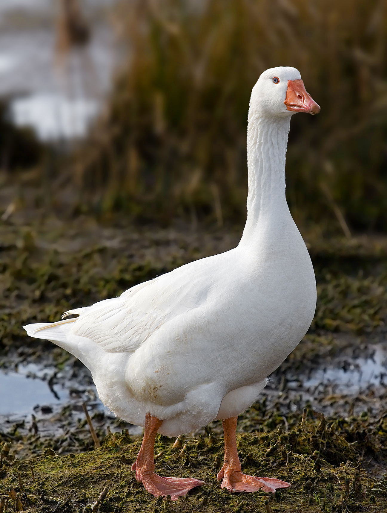 A feral Domestic Goose (Embden Goose) in Tasmania, Australia